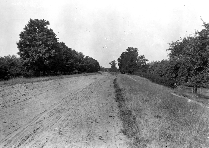 Ridge Road in Orleans County, New York. This road follows the crest of the beach ridge of the Glacial Lake Iroquois shore line.